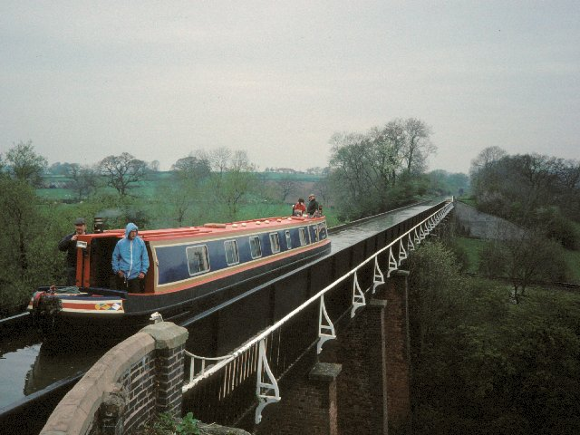 Edstone Aqueduct. The cast iron Edstone aqueduct on the Stratford-upon-Avon canal